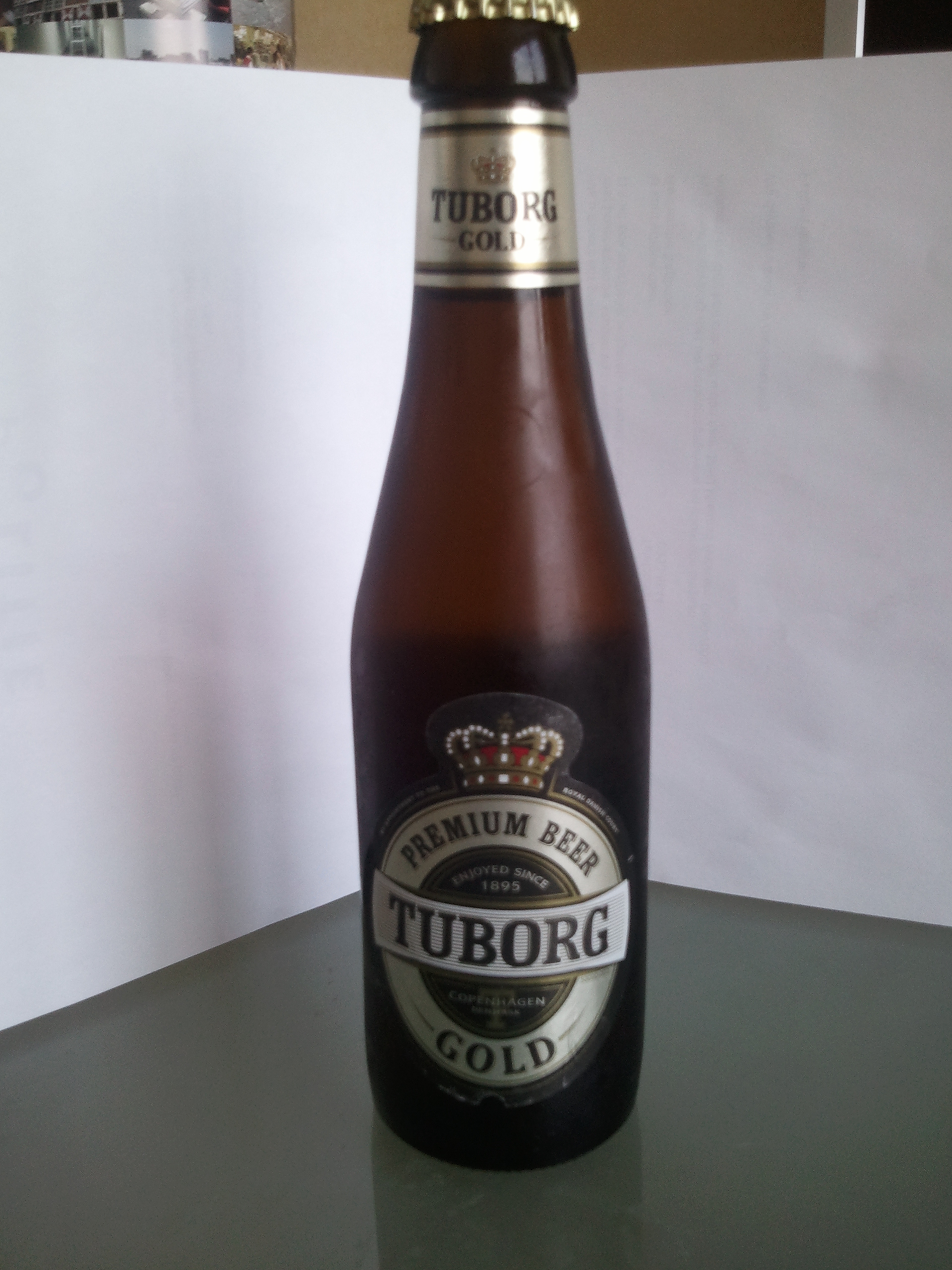 Bottle of Tuborg Gold - danish beer